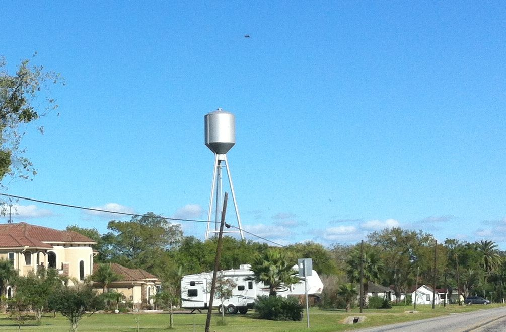 Water tower in Tivoli, Texas, viewed from west. Town name is painted on the east side.